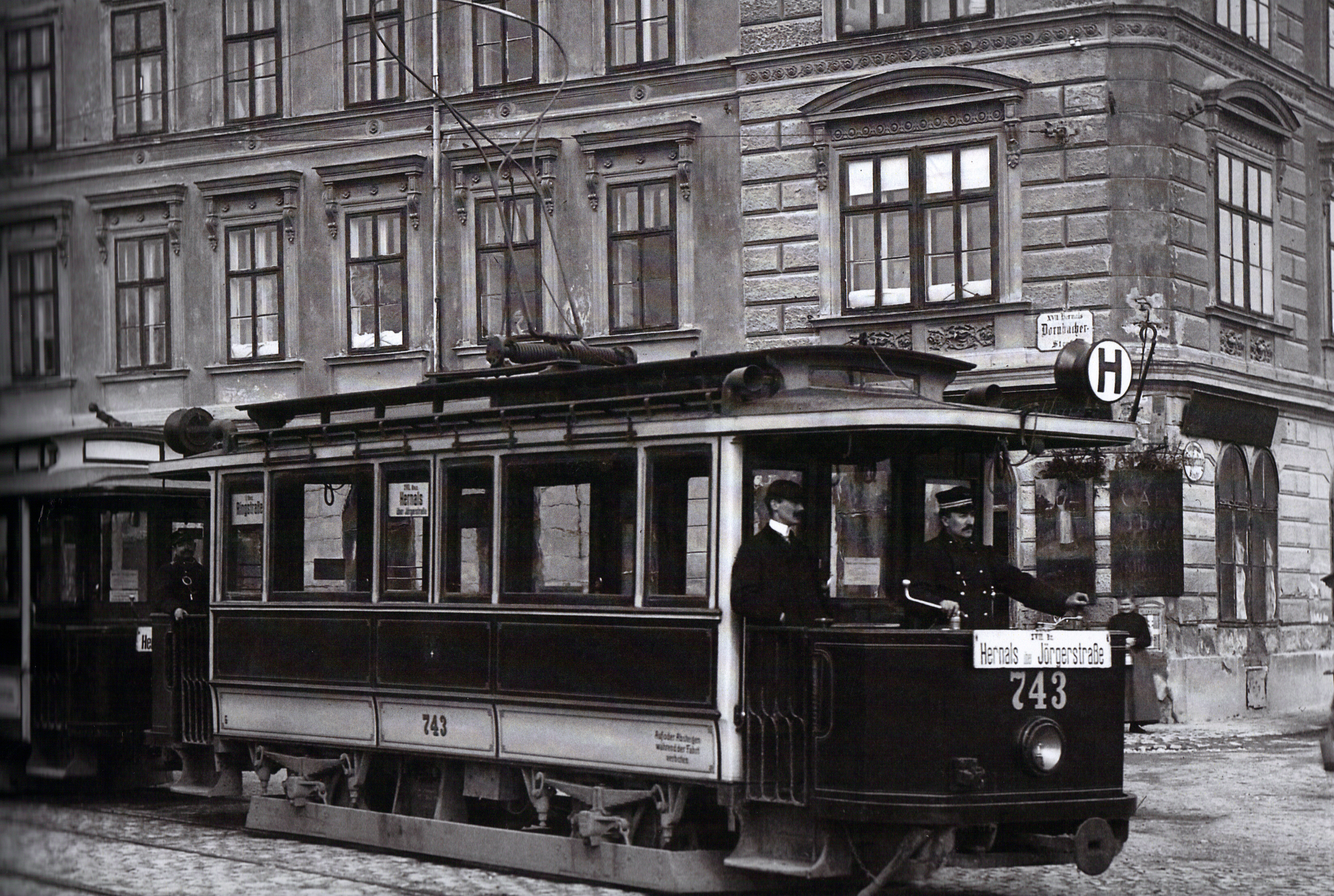 Streetcar "H" in Vienna, 1906